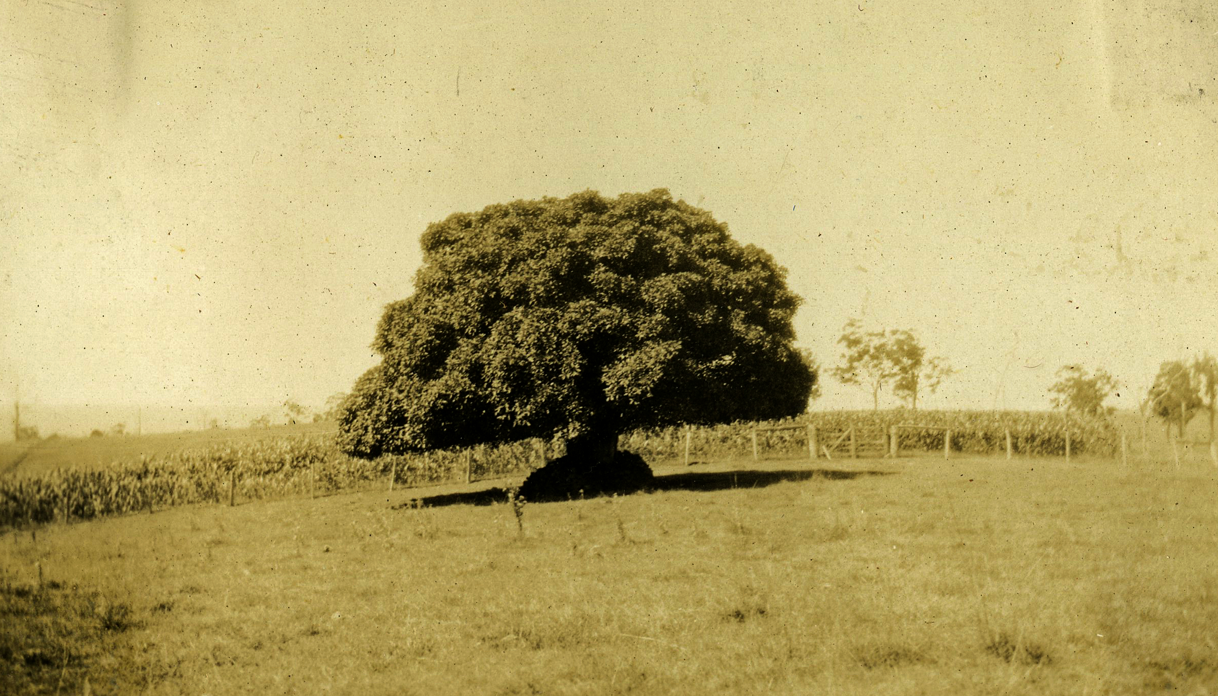 Notes: The Hordern business was originally established by a free immigrant from England, Anthony Hordern, in 1823, as a drapery shop. It went on to become Anthony Hordern & Sons with a famous department store in Sydney. The crest on their coat of arms was a budding oak tree with the motto: "While I live I'll grow". It appeared above all the store's window fittings and on all its stationery. The six storey Sydney store built 1905 was once the largest department store in the world. A Port Jackson fig tree located on a ridge on the south side of the Razorback range near Camden, bore a striking resemblance to the tree pictured in the trade emblem. In the 1920s Anthony Hordern arranged with the land owners at the Razorback to erect a hoarding sign alongside bearing the store motto. Format: b&w photo 6.5 cm x 11 cm Date Range: 1930 Licensing: Attribution, share alike, creative commons. Repository: Blue Mountains City Library .au/client/en_AU/default/ Part of: Local Studies Collection - LS Images - Wegner Album Provenance: Donation Links: Anthony Horderns - Store history and memories - Tree poisoned - Vandal poisons tree (1966, March 4). The Canberra Times (ACT : 1926 - 1995), p. 11. Retrieved April 17, 2018, from .au/nla.news-article105889810